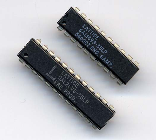 Summary from the original uploader: The Generic Array Logic (GAL) is direct replacement for most 20 and 24 pin PALs. Introduced by Lattice Semiconductor in 1985, this CMOS device was the first electrically erasable programmable logic device and is still being produced in 2006. The devices shown are early engineering samples from 1985.